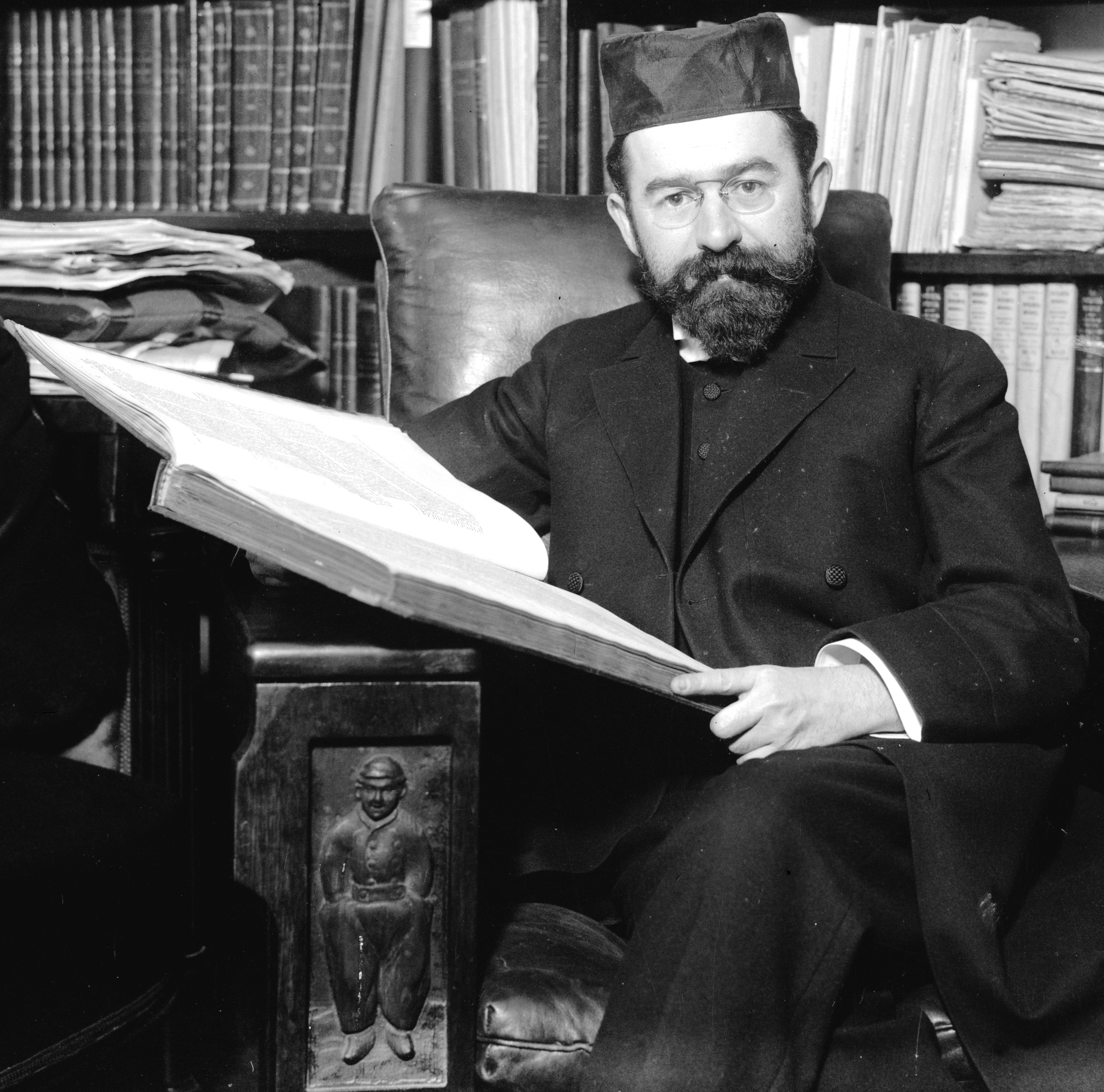 Rabbi Hertz. Photo shows Rabbi Dr Joseph Herman Hertz (1872-1946), who was elected Chief Rabbi of the British Empire in 1913. (Source: Flickr Commons project and New York Times archive, 2009.)